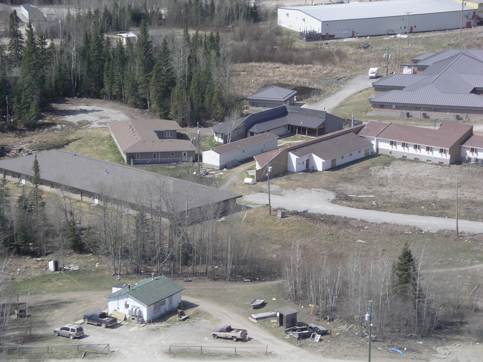 building in the foreground